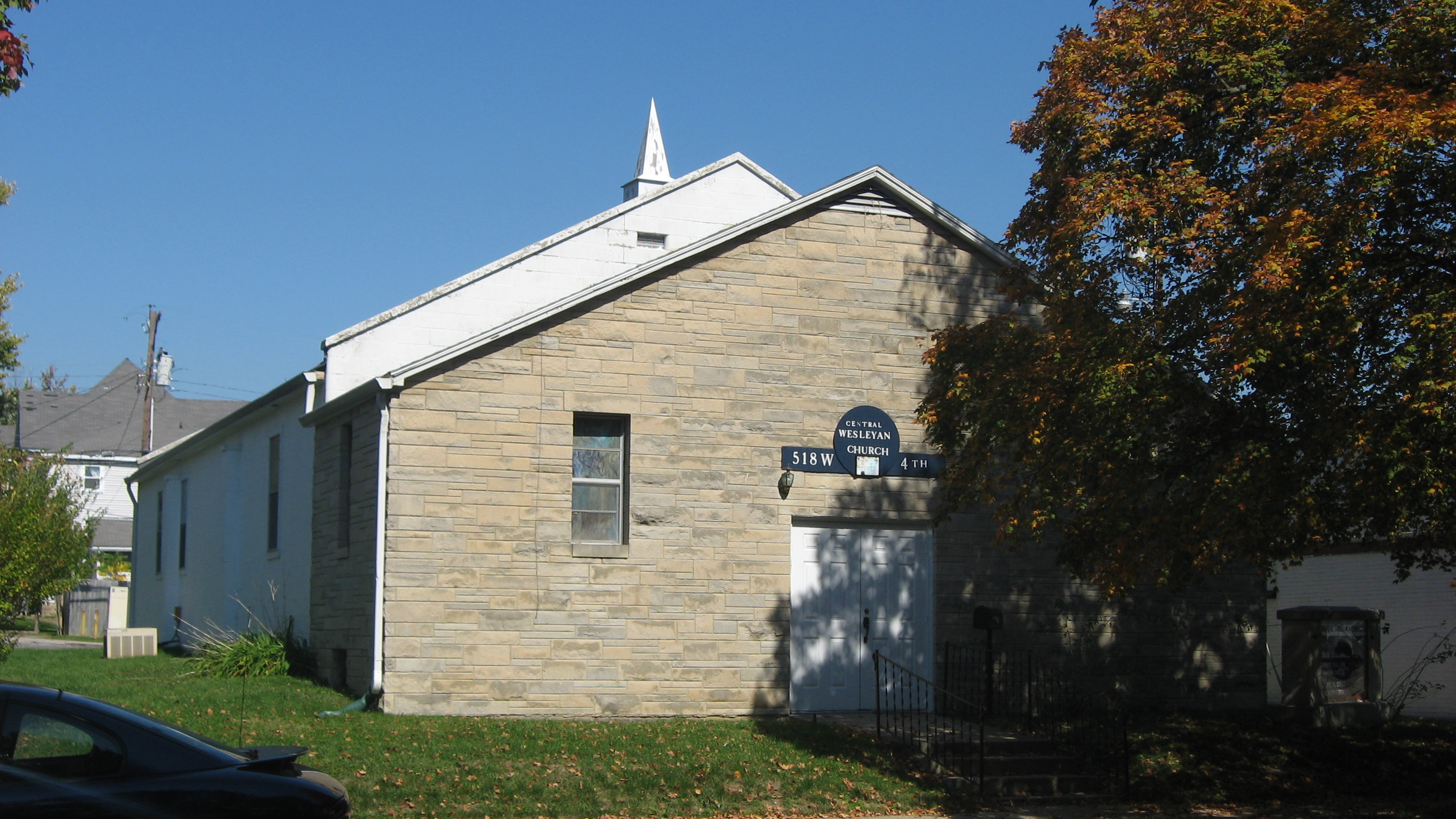 Front of the Central Wesleyan Church, located at 518 W. Fourth Street in Bloomington, Indiana, United States. Built in 1950, it is a non-contributing property within the boundaries of the Steele Dunning Historic District.